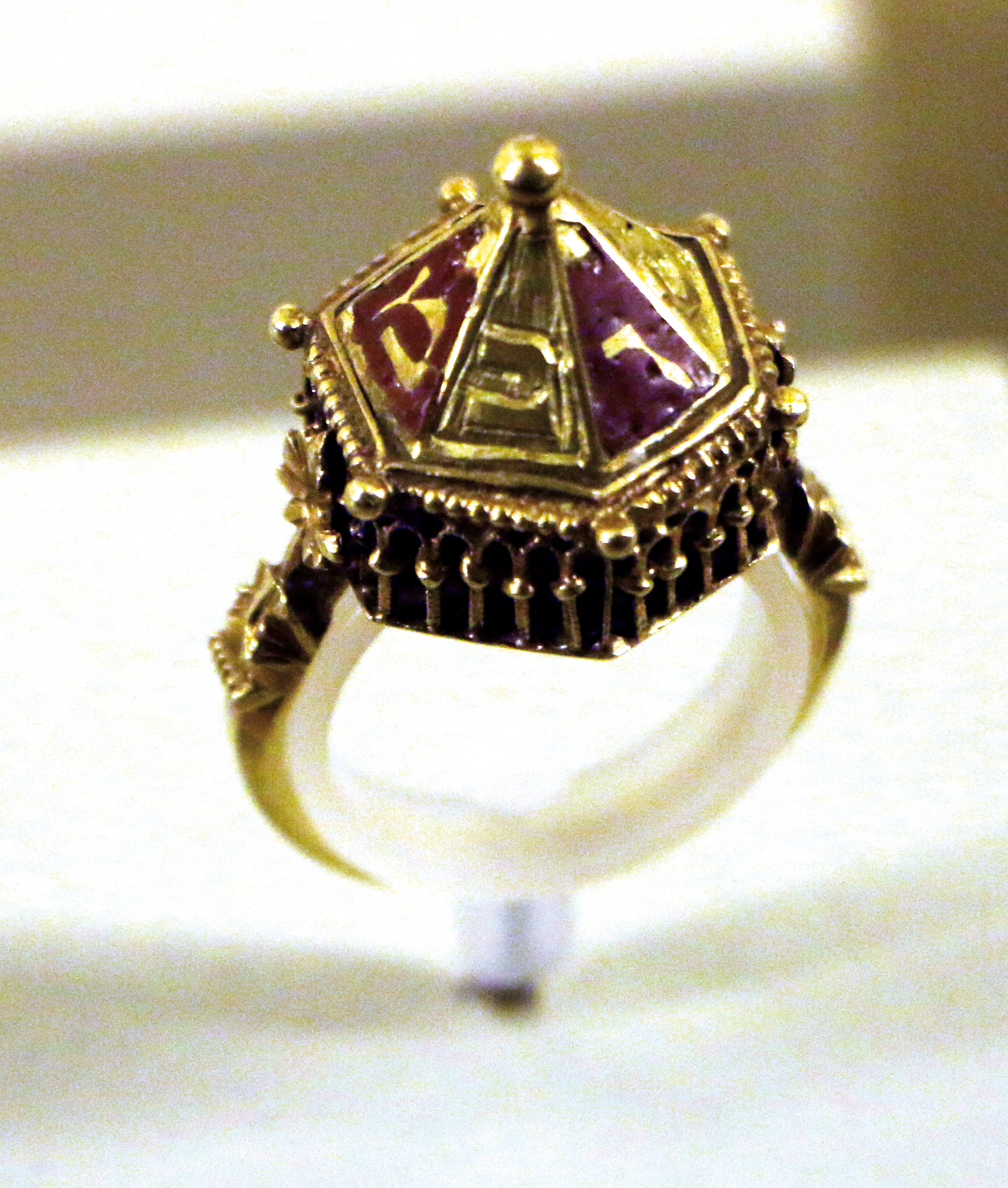 Jewish Wedding ring made of gold and Vitreous enamel. It can be seen in the Musée de Cluny in Paris.Beginning XIVth century, maybe from Italy.